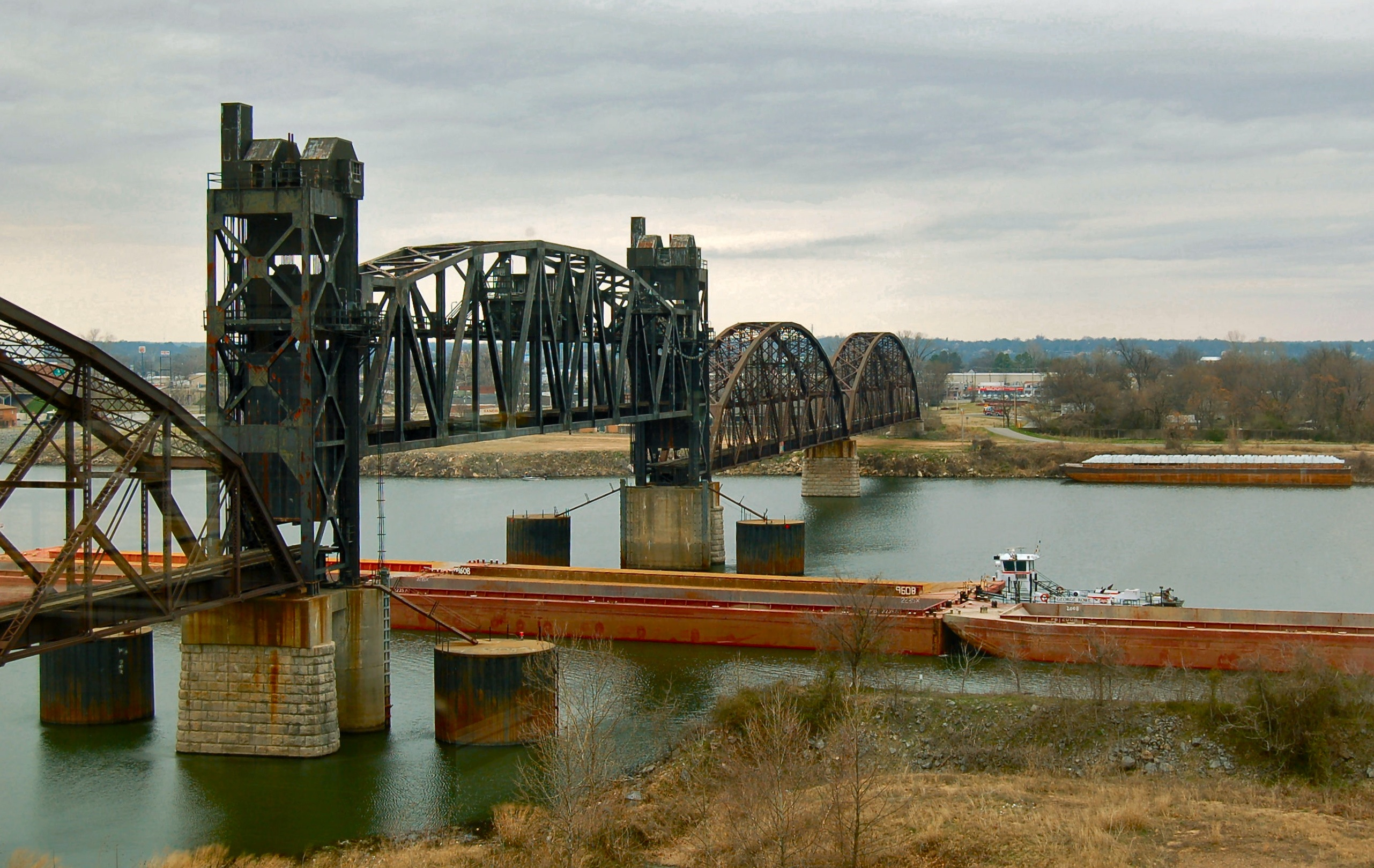 The Rock Island Bridge, a vertical-lift railroad bridge over the Arkansas River in Little Rock, Arkansas, with its lift span raised. A barge is passing underneath. The bridge was built in 1899, as a swing-span type, but the swing span was replaced by a vertical-lift span in 1970–72.